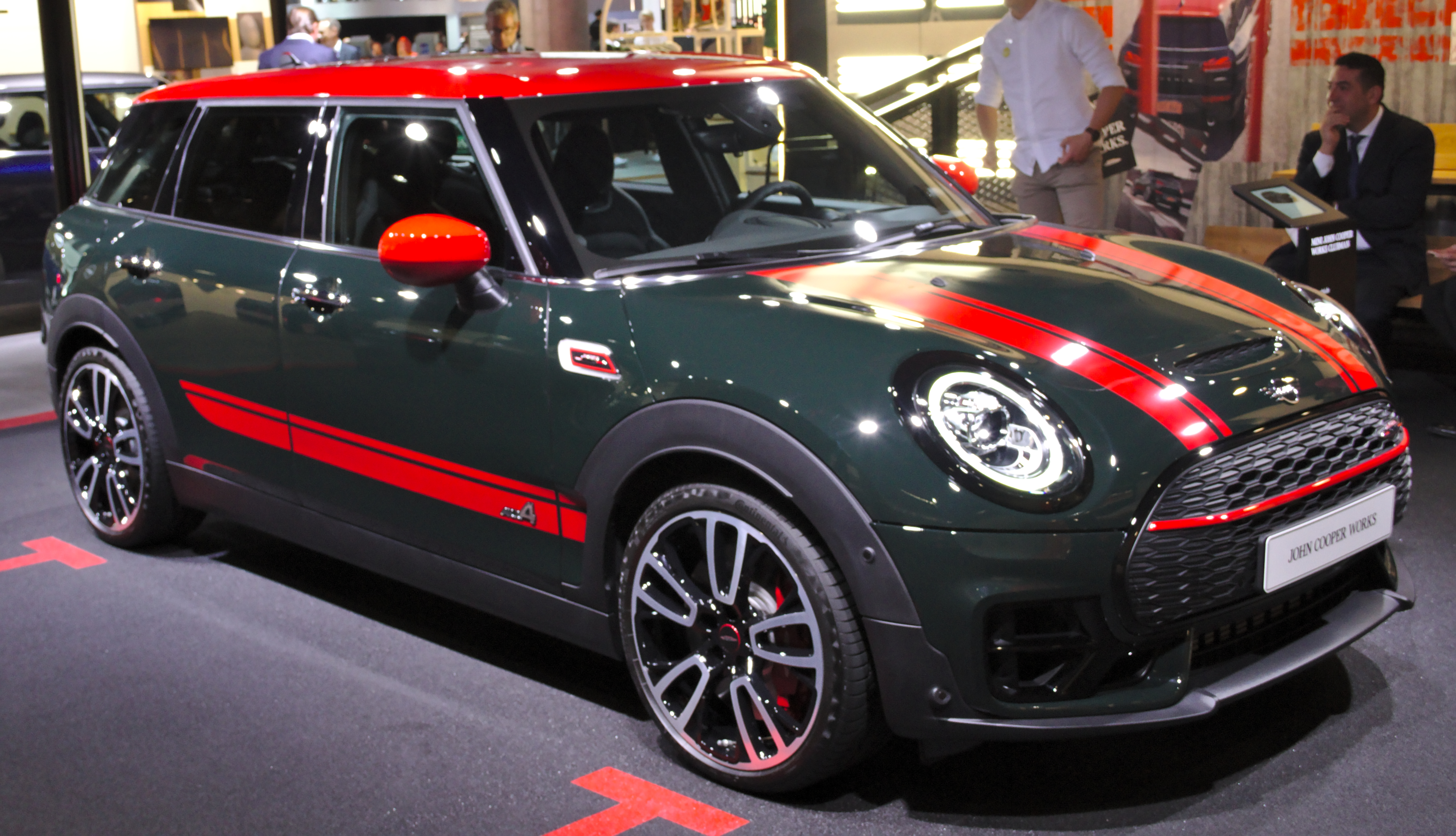 Mini_Clubman_(F54)_John_Cooper_Works at IAA 2019